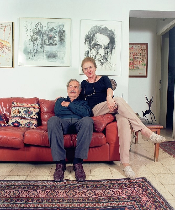 Art of Israel